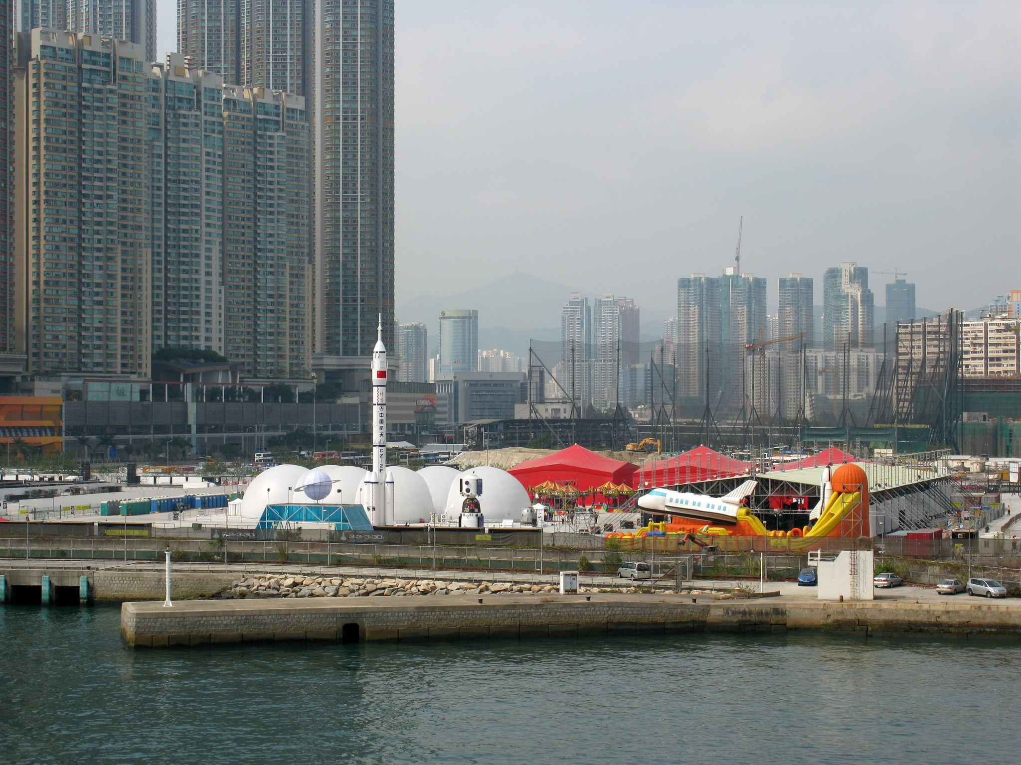 Pop TV Arena (Demolished)